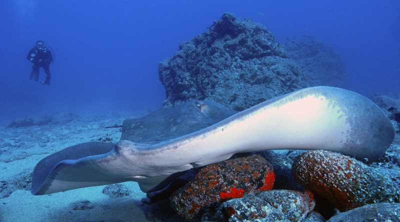 Dasyatis centroura - Roughtail Stingray / Chucho de clavos / Pastenague épineuse, Tenerife.